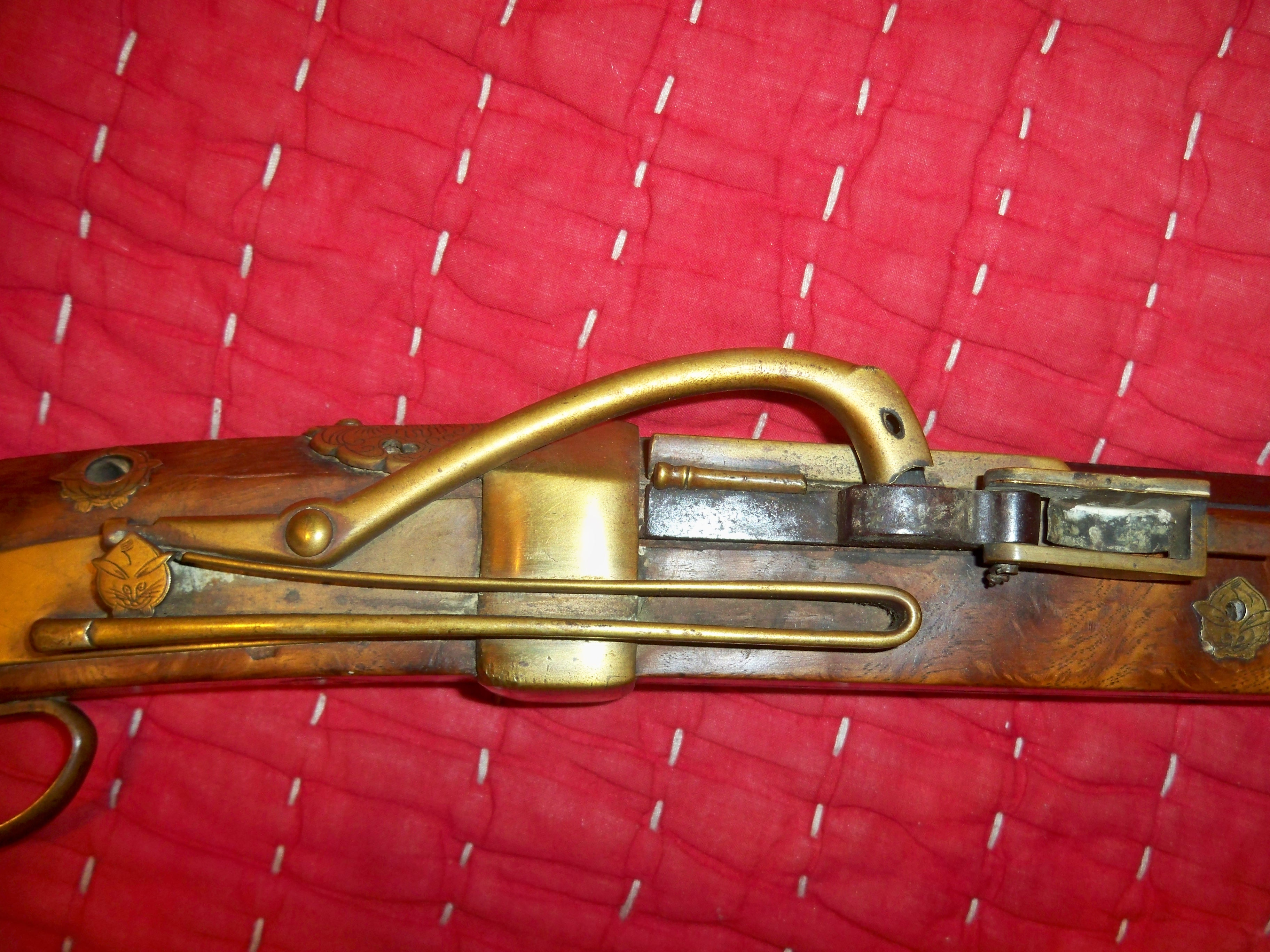 Antique Japanese (samurai) Edo period Choshu Tanegashima firing mechanism.